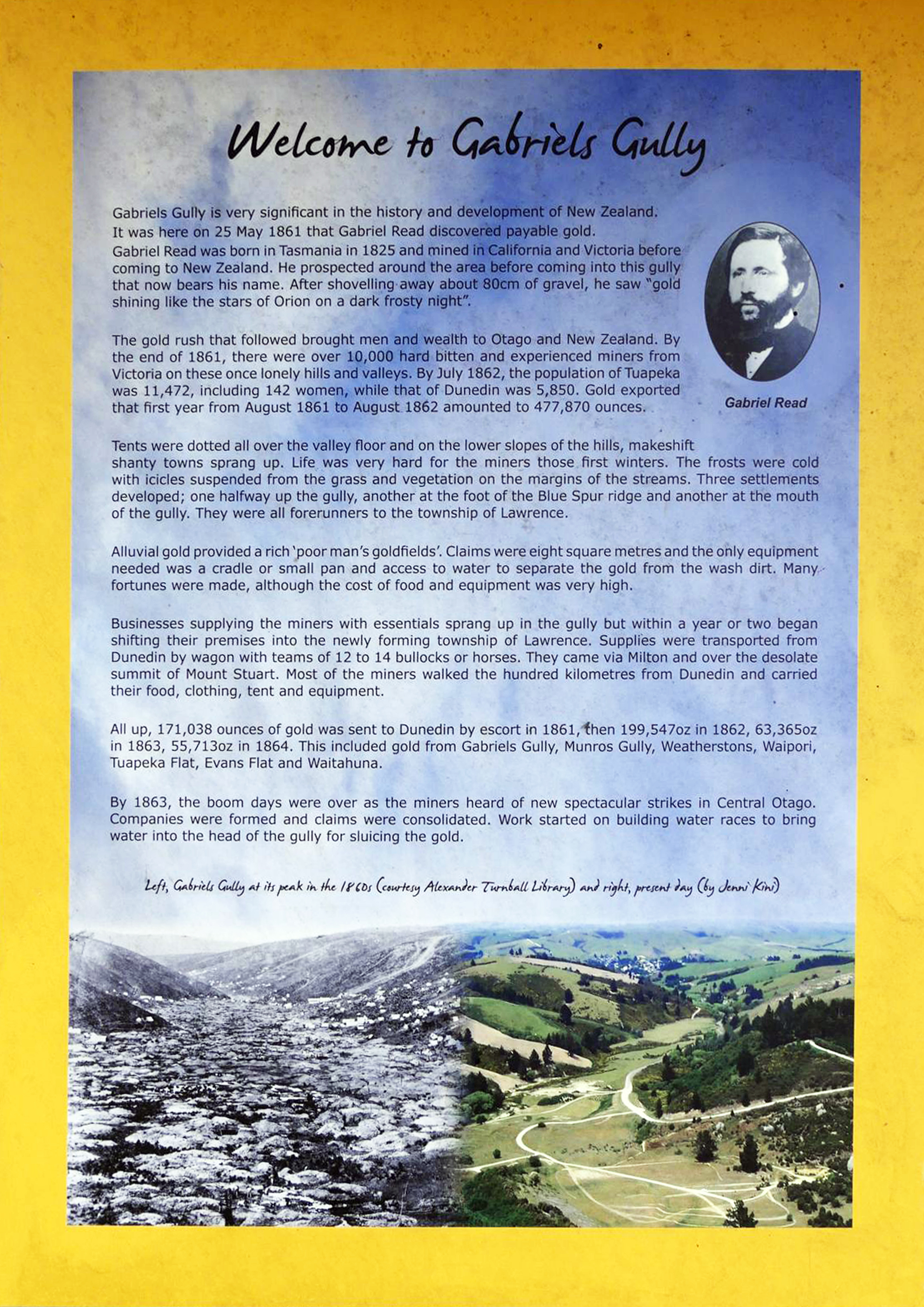 Gabriel's Gully, Information Board of Historical Gold Mining Area (close to the Entrance), Otago Region, South Island, New Zealand